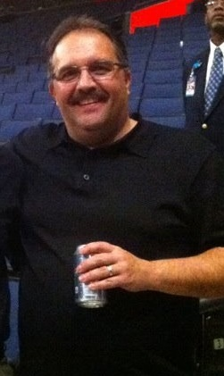 Then-Magic head coach Stan Van Gundy poses with fans after a game (cropped)